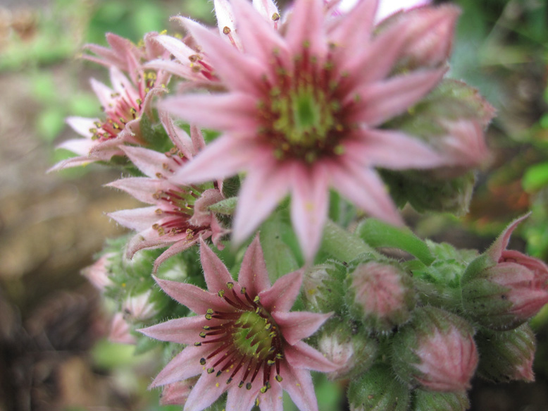 hen and chicks in bloom